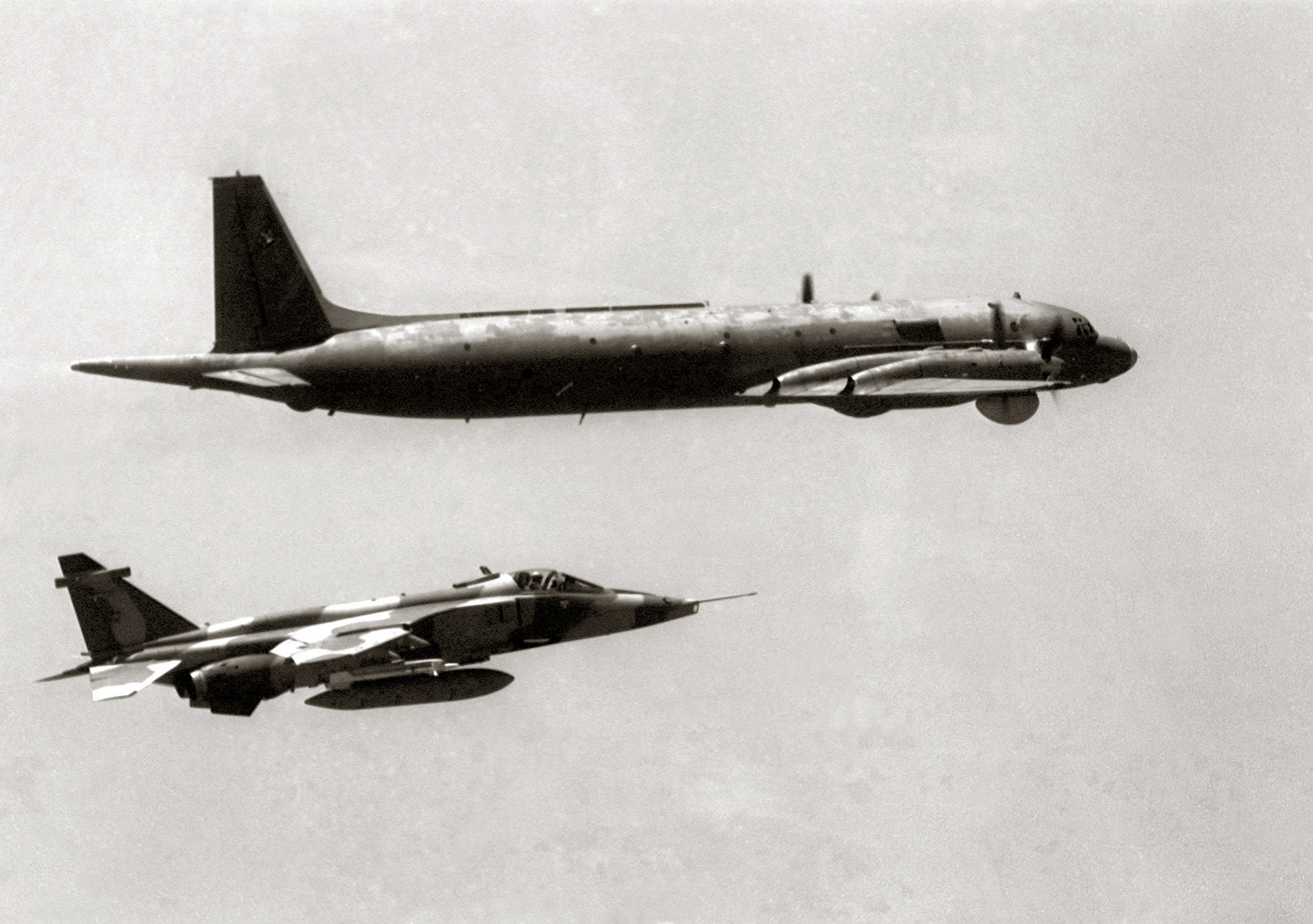 A Sultan of Oman's Air Force (SOAF) SEPECAT S(O).1 Jaguar aircraft approaching a Soviet Ilyushin Il-38 May maritime patrol aircraft in 1987. The Jaguar carries two AIM-9J Sidewinder air-to-air missiles.